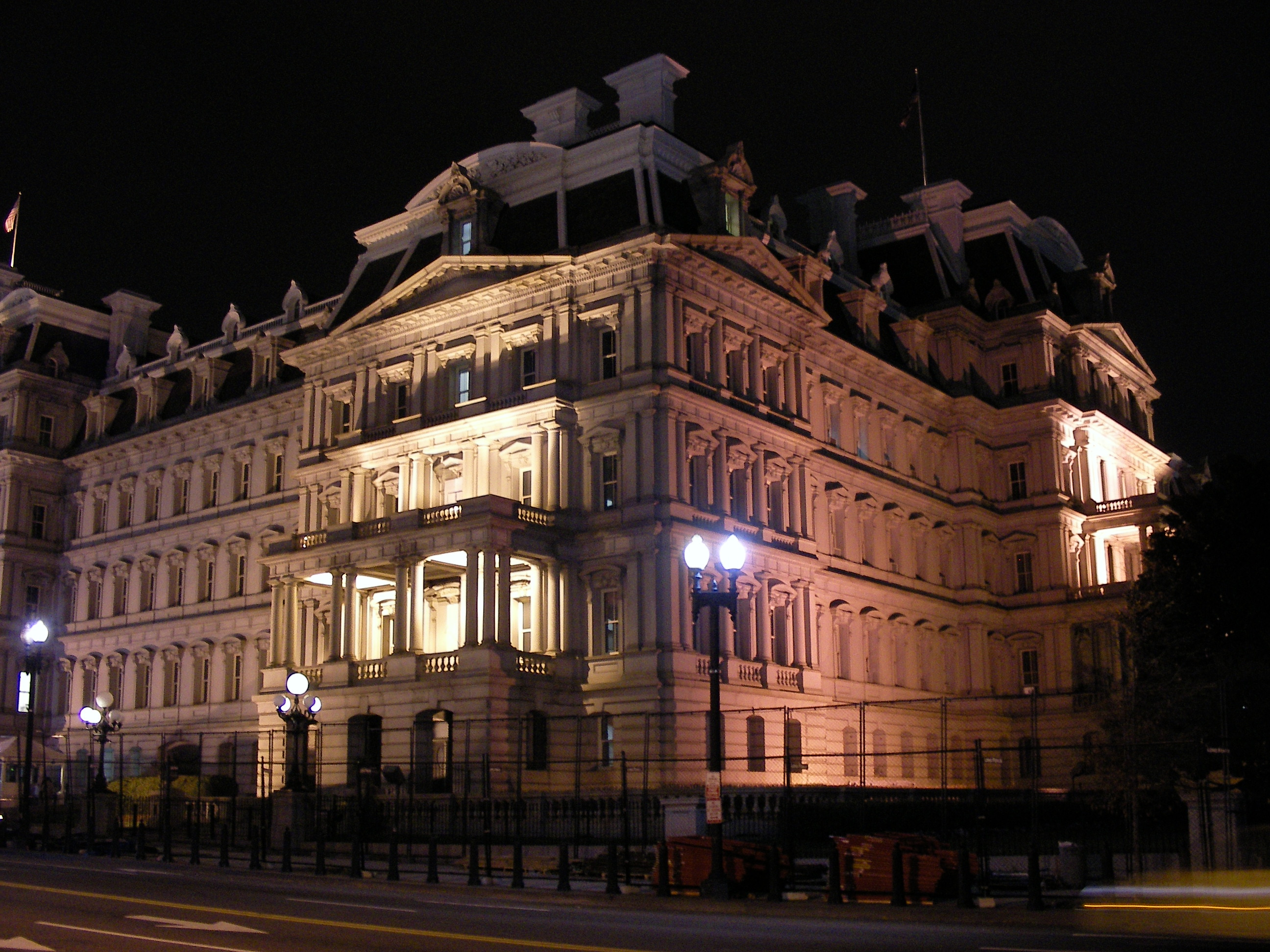 Eisenhower Executive Office Building, Washington, DC, at night.